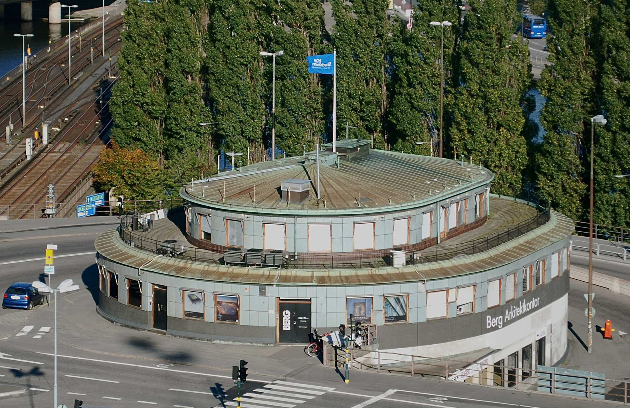 Kolingsborg building seen from Katarinahissen. Built 1953-54 for Stockholm port authority. Arcitect Arthur von Schmalensee.